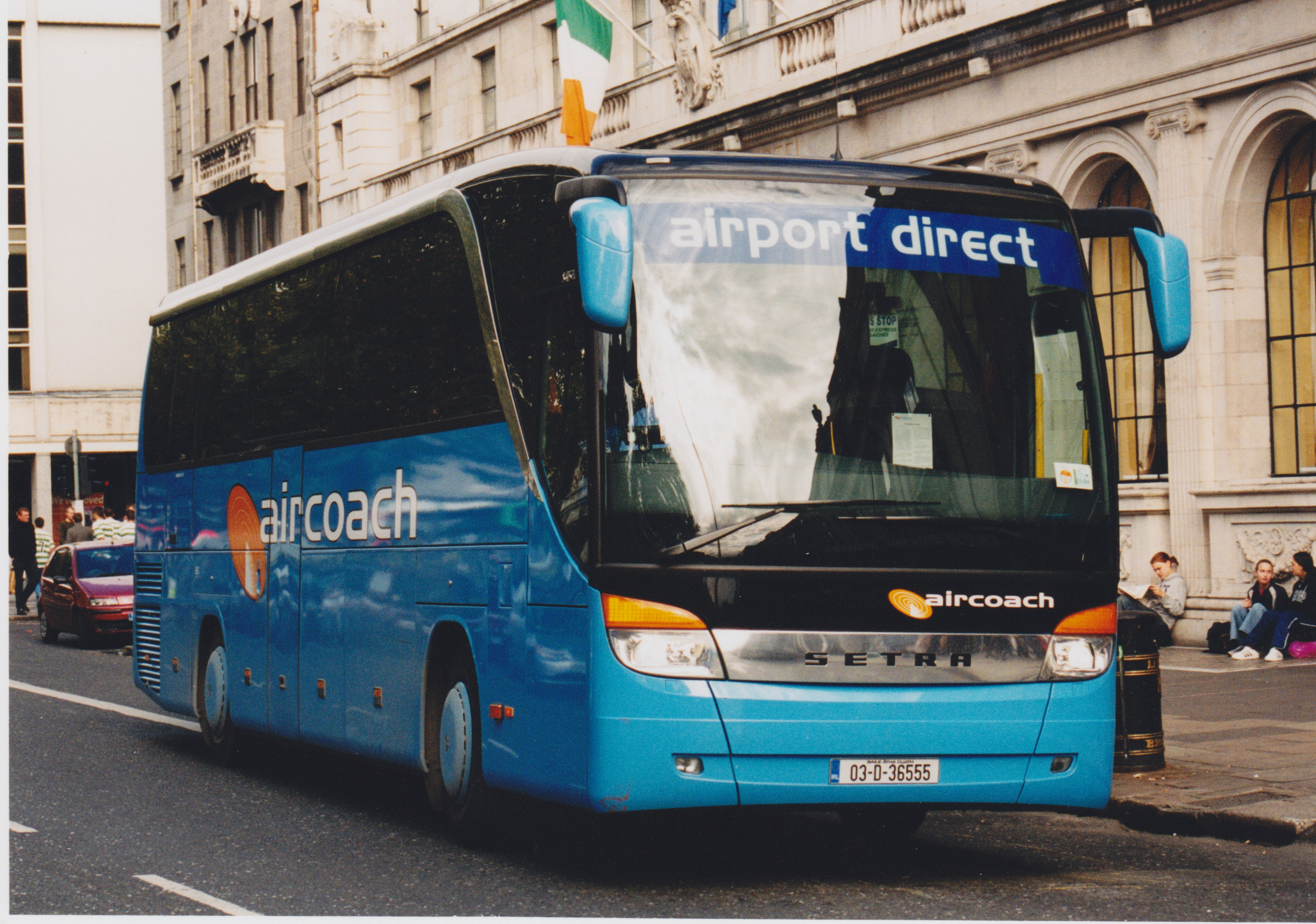 Aircoach Setra 03D36555